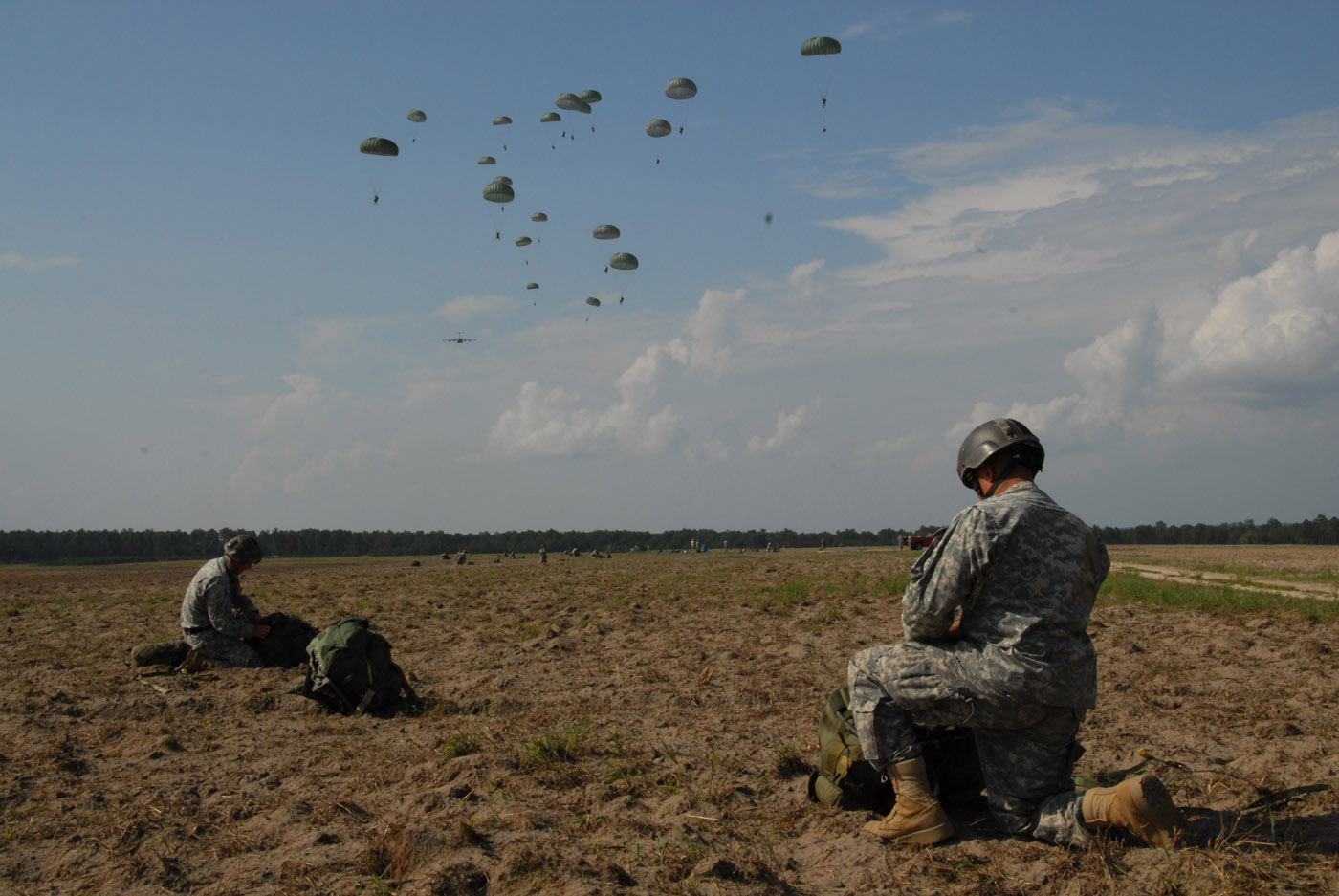 A mass airborne operation involving more than 1,000 Soldiers of the 75th Ranger Regiment begins the biennial Ranger Rendezvous Aug. 3, 2009 at Fort Benning, Ga. Photo by Sgt. Tony Hawkins, USASOC PAO See more at target= Mass jump, command change highlight Ranger Rendezvous